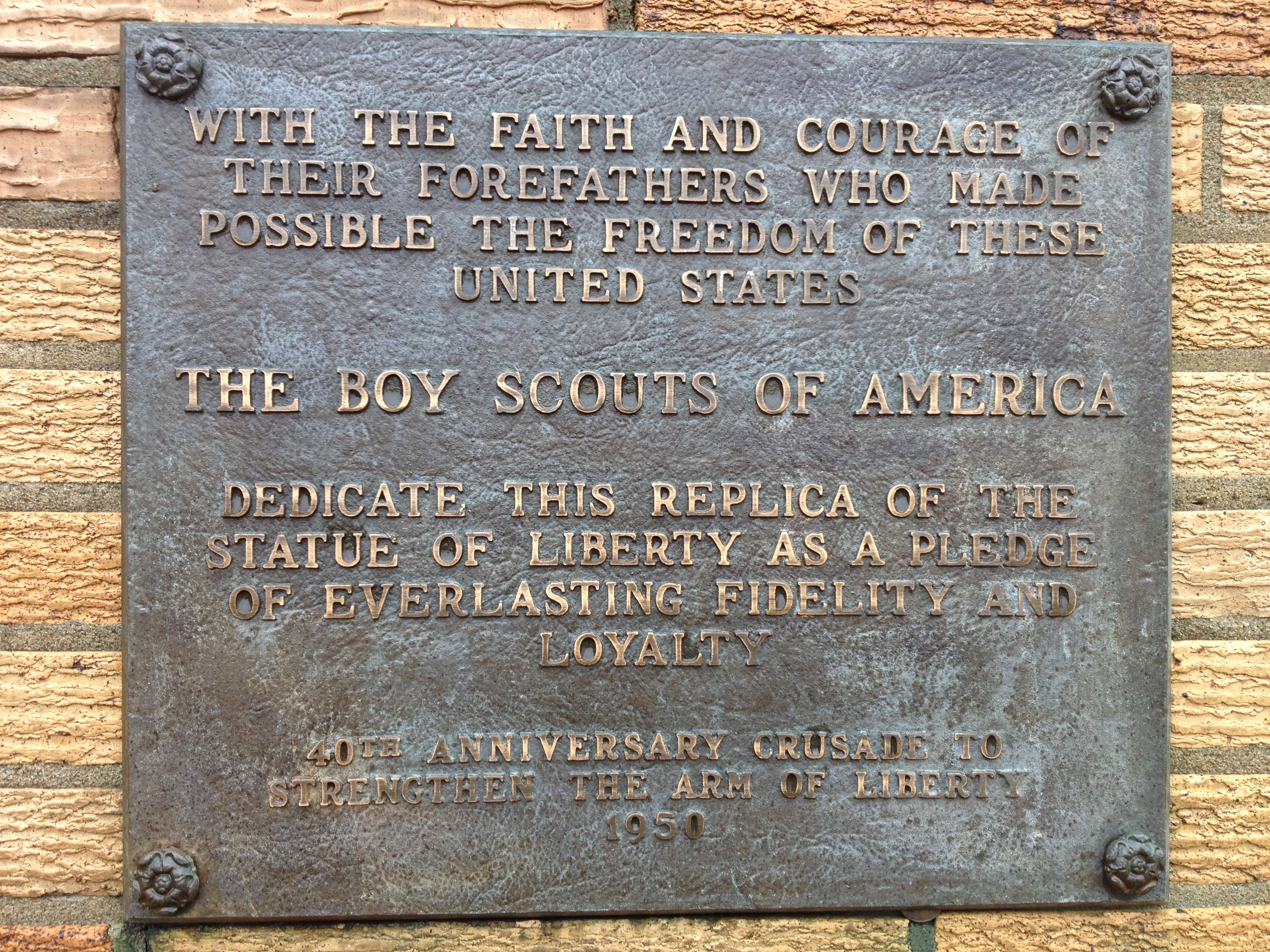 Photo of placard at bottom of replica of Statue of Liberty on grounds of Shawnee Mission North High School in Overland Park, Kansas.